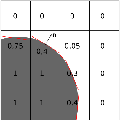 Schematic description of PLIC Reconstruction